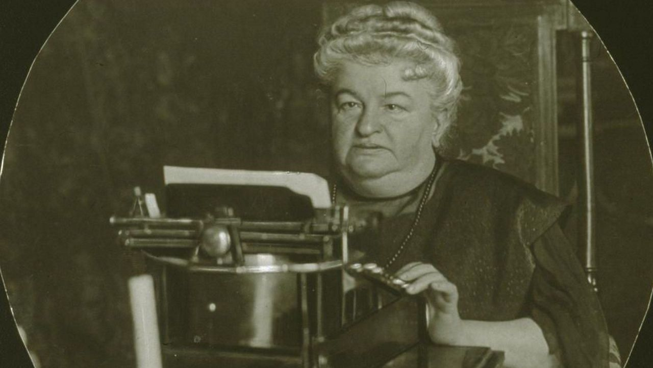 Emilia Pardo Bazán (1851–1921) Alternative names Pardo Bazan; Pardo Bazán; Emilia Pardo Bazan; Condesa de Pardo Bazan; Condesa de Pardo BazánDescriptionSpanish essayist, literary critic, novelist, journalist, salonnière and writerDate of birth/death 16 September 1851 12 May 1921 Location of birth/death A Coruña MadridAuthority control : Q275929 VIAF: 51699645 ISNI: 0000 0001 2132 6876 ULAN: 500040457 LCCN: n50080388 NLA: 35441472 WorldCat creator QS:P170,Q275929